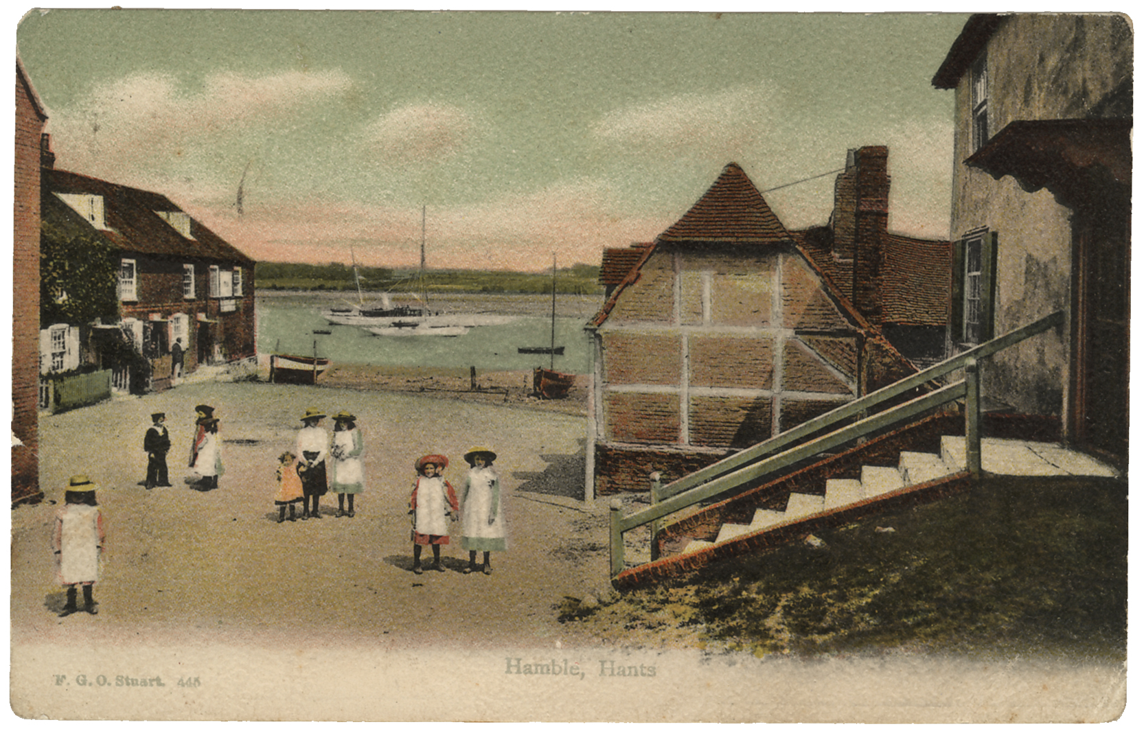 postcard of waterfront Hamble